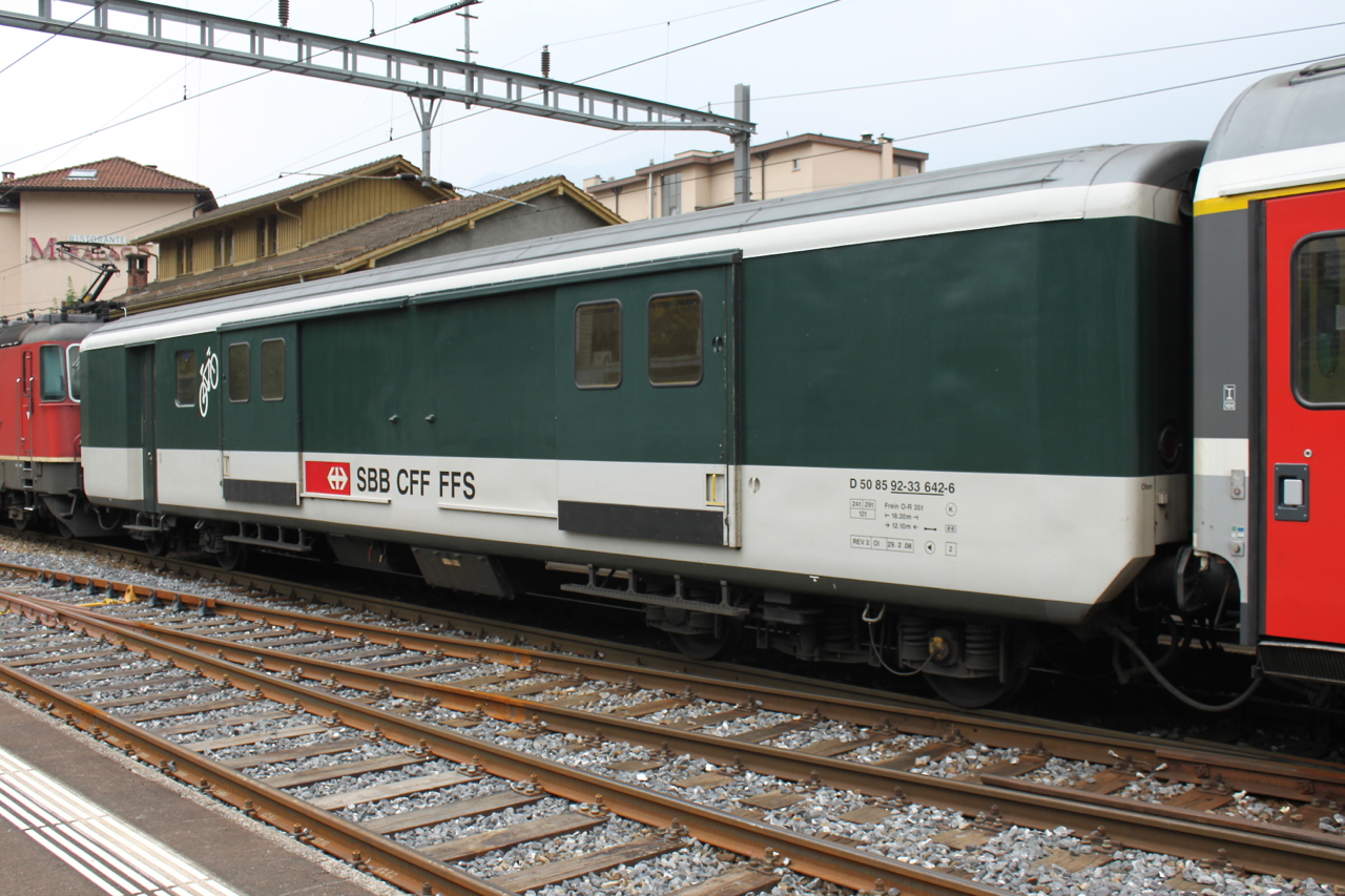 SBB CFF FFS D 50 85 92-33 642-6 at Locarno train station.